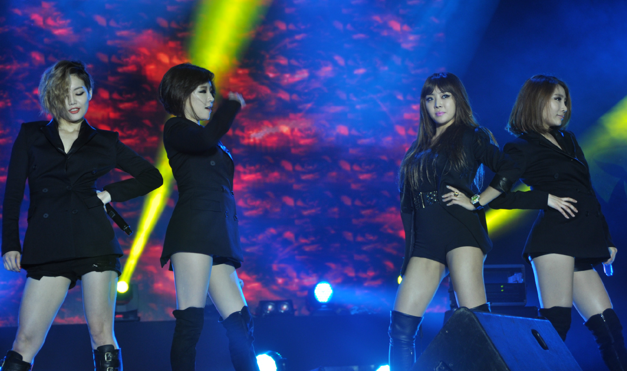 Korean Pop Group Brown Eyed Girls perform at MTV EXIT concert in Hanoi